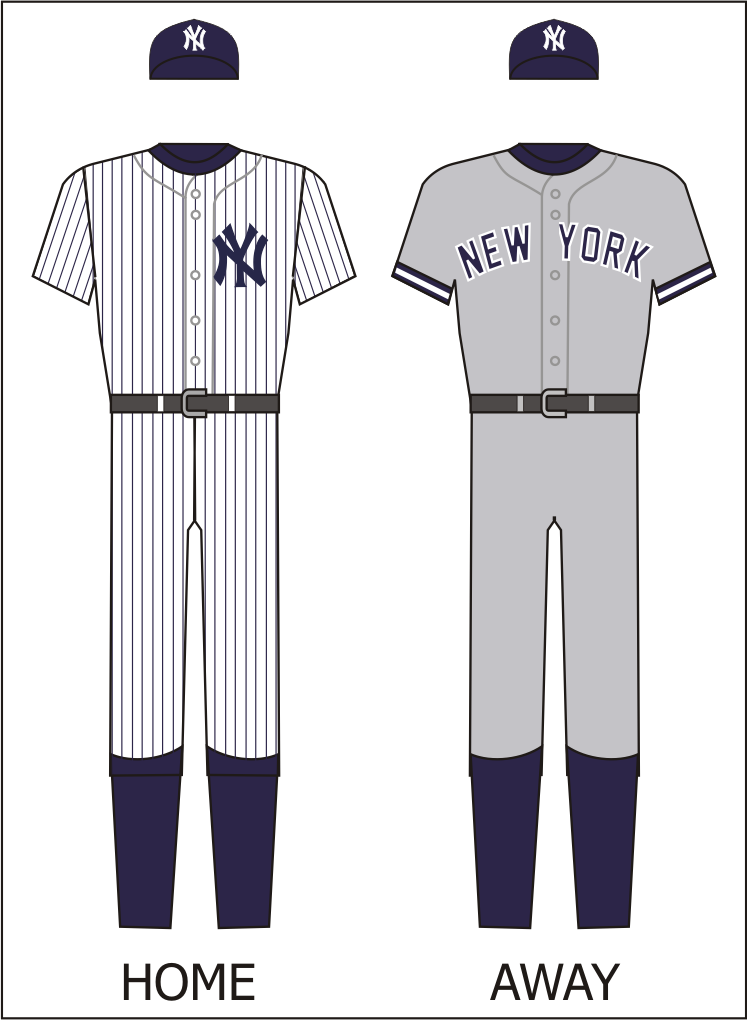 New York Yankees 2012 uniforms.